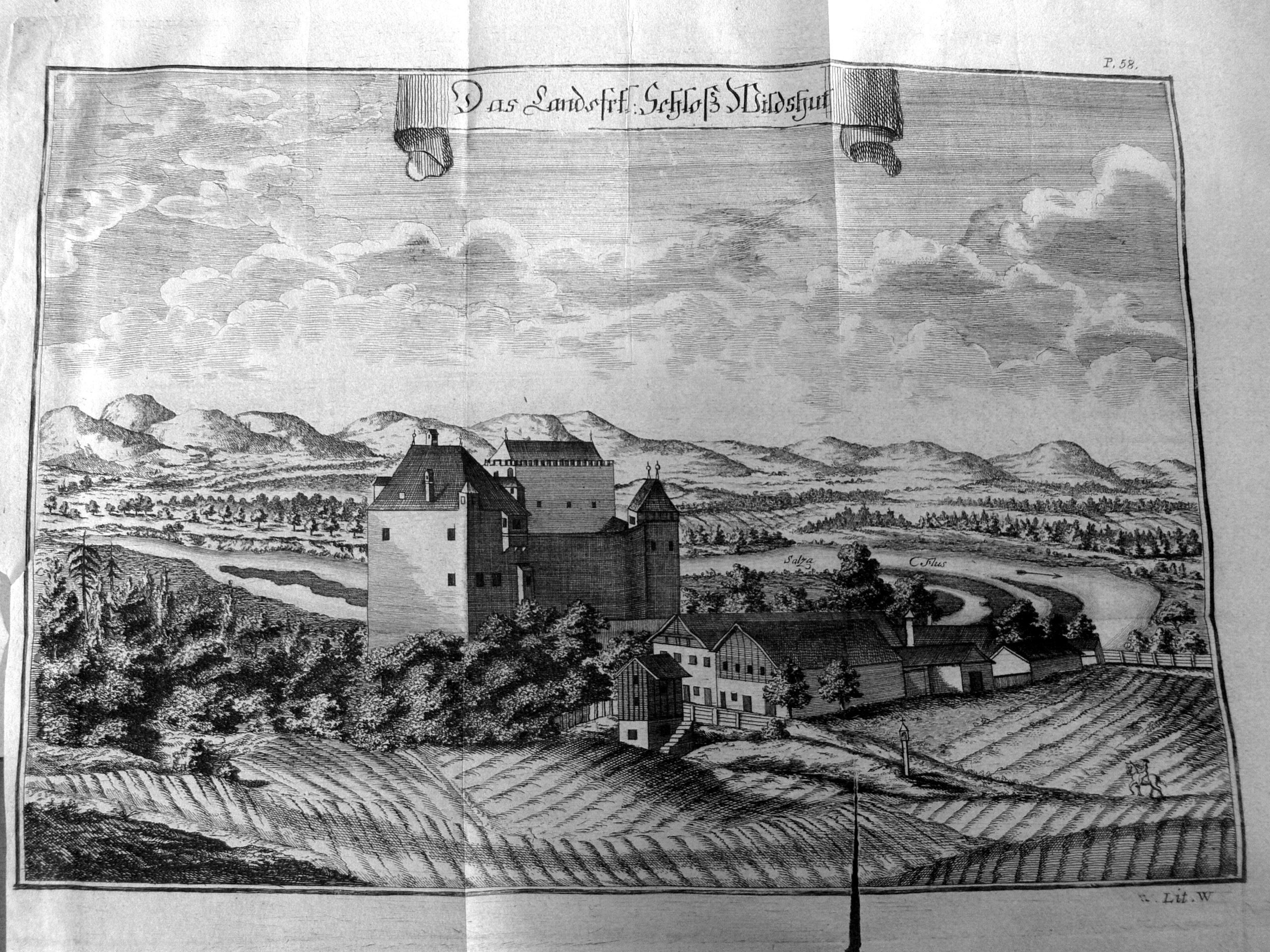 Engraving of Wildshut Castle ( 1779 ) in Innviertel ( Austria ).